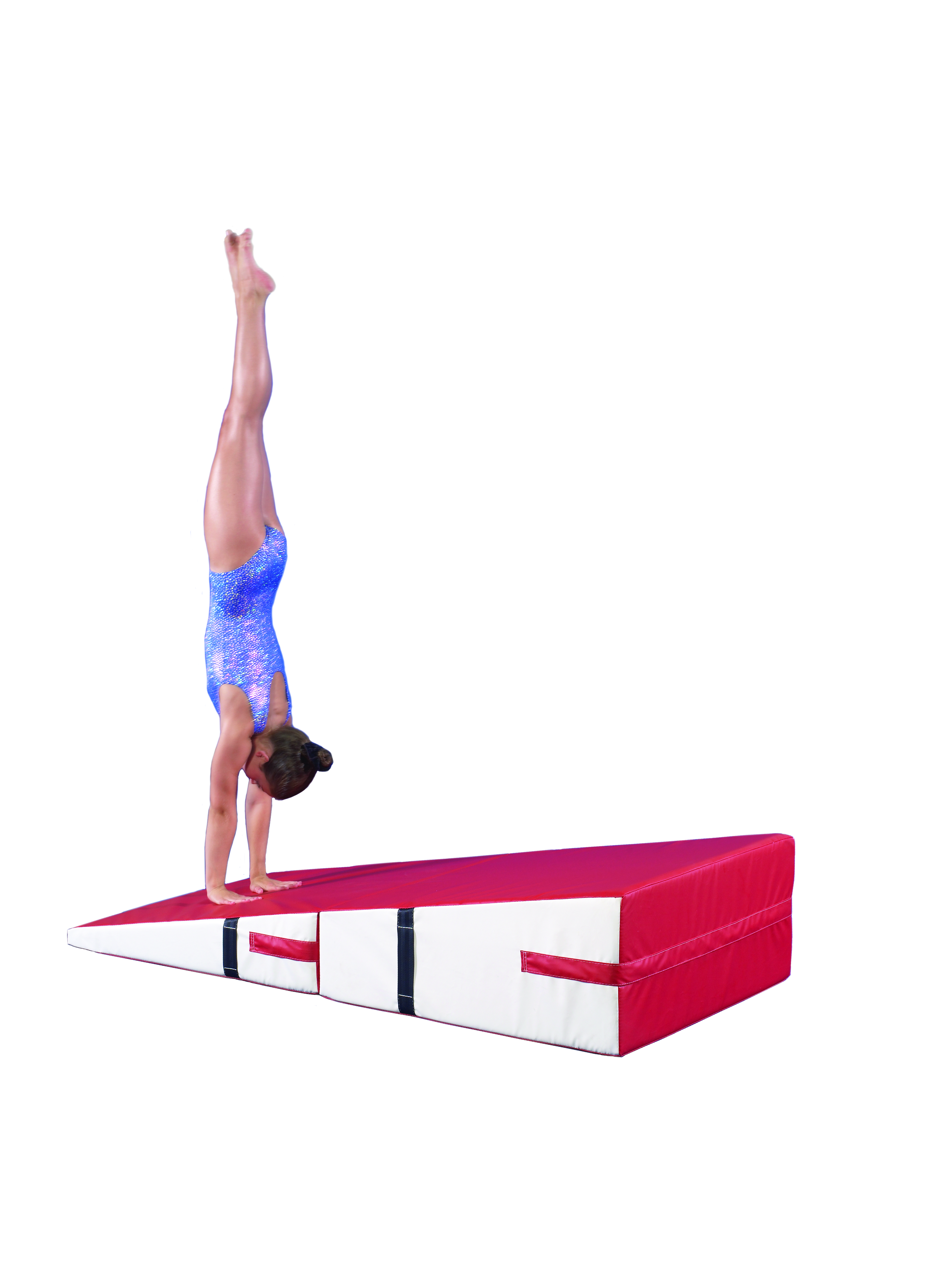 this is a picture of a gymnast executing a handstand on a bi-fold incline mat.